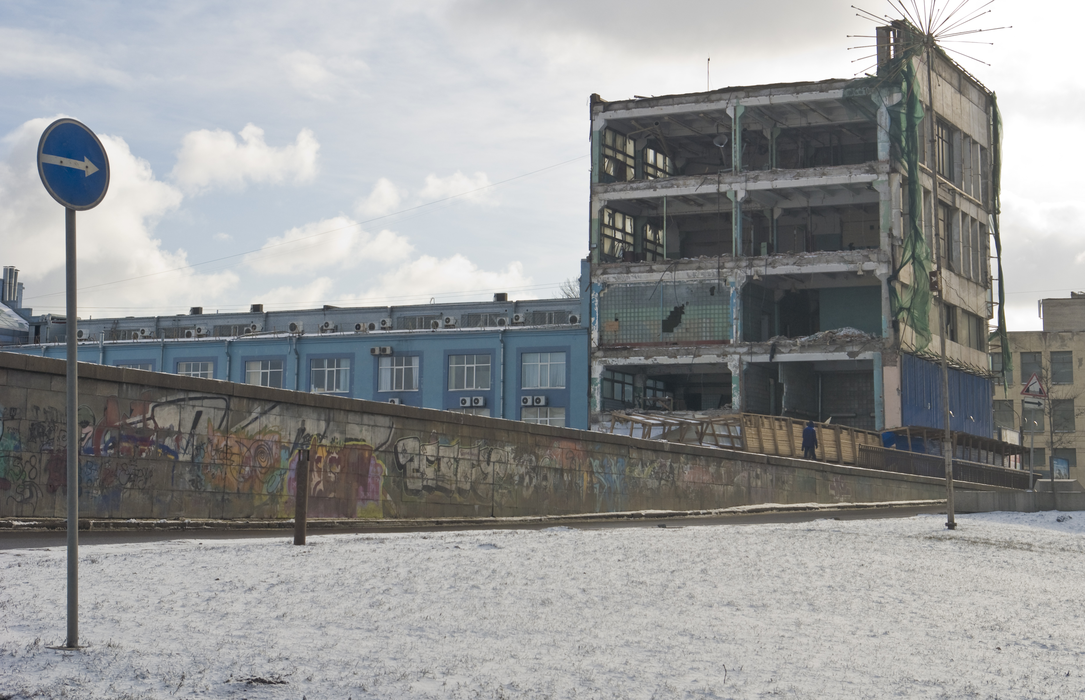 Okhta center (Saint Petersburg), building stage